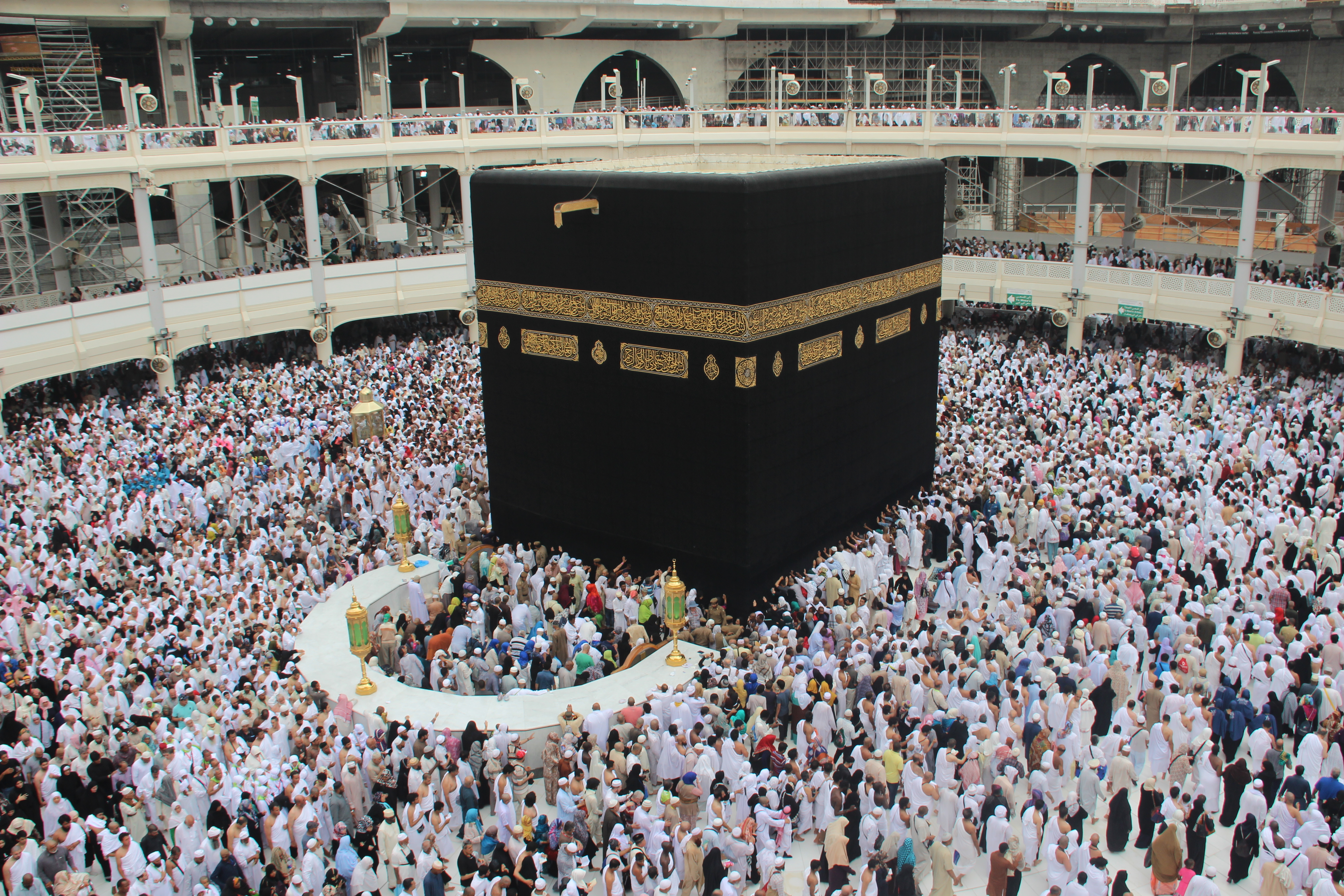 Kaaba in Makkah